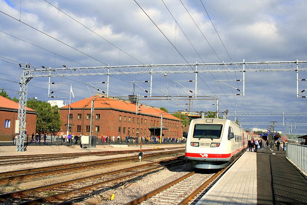 Railway opening between Kerava and Lahti 1st September, 2006 Railway: A railway planned 1998 and completed 2006. The train: The Fiat Pendolino for the guests of the Finnish Rail Administrator and the rail operator the Finnish Railways. The Finnish Railway Administration The Finnish Railways